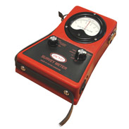 Author